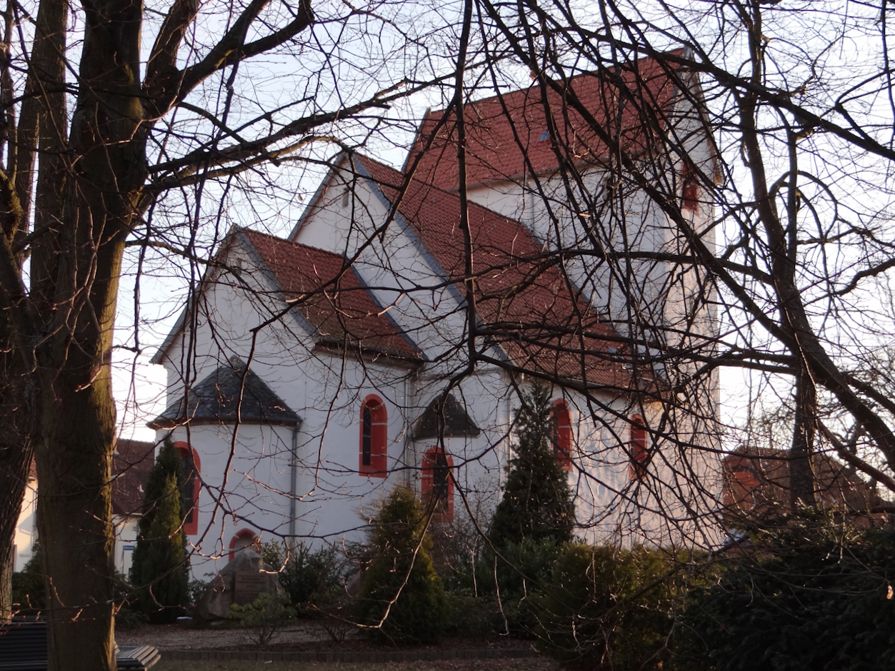 Church St. Nikolai at Melverode